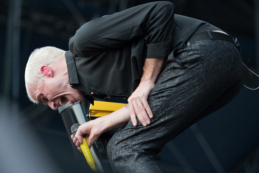 " and link the text to .